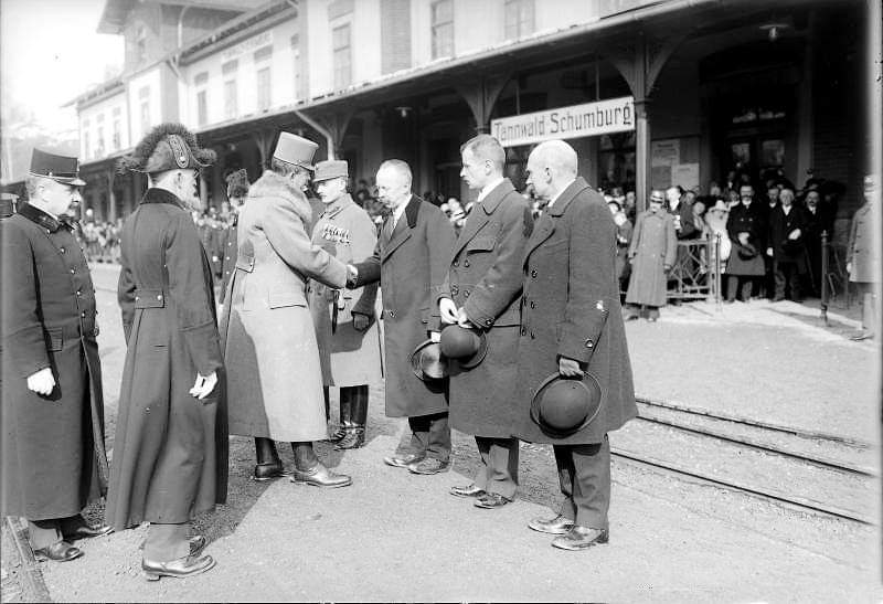 Emperor Charles I at the railway station in Tanvald on the way through the northern Bohemia.